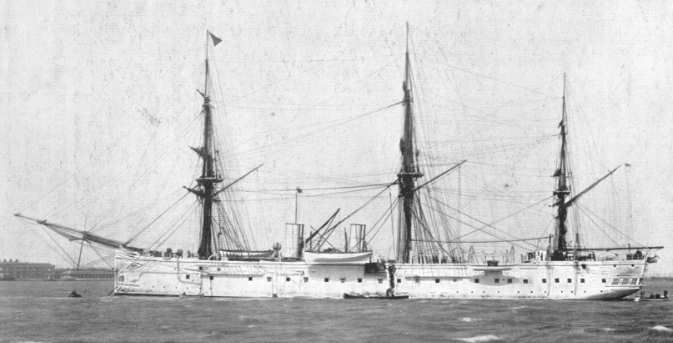 Photograph of British ironclad screw corvette HMS Bacchante.